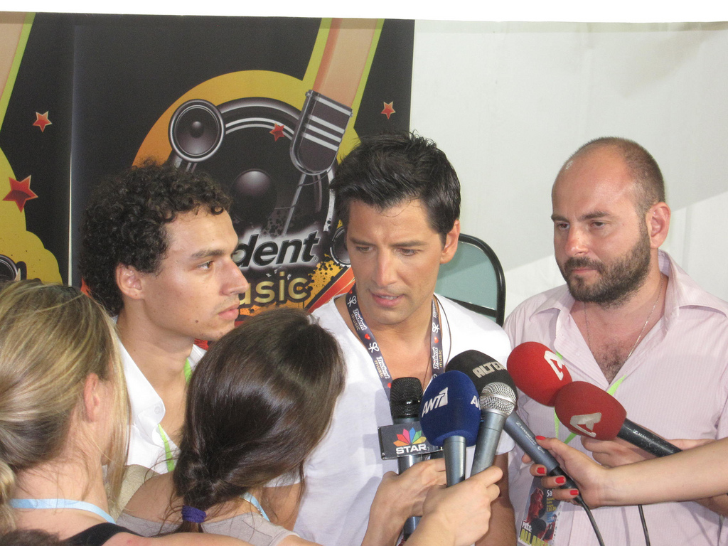 Greek singer Sakis Rouvas at an SMS of Youth press conference about the environment